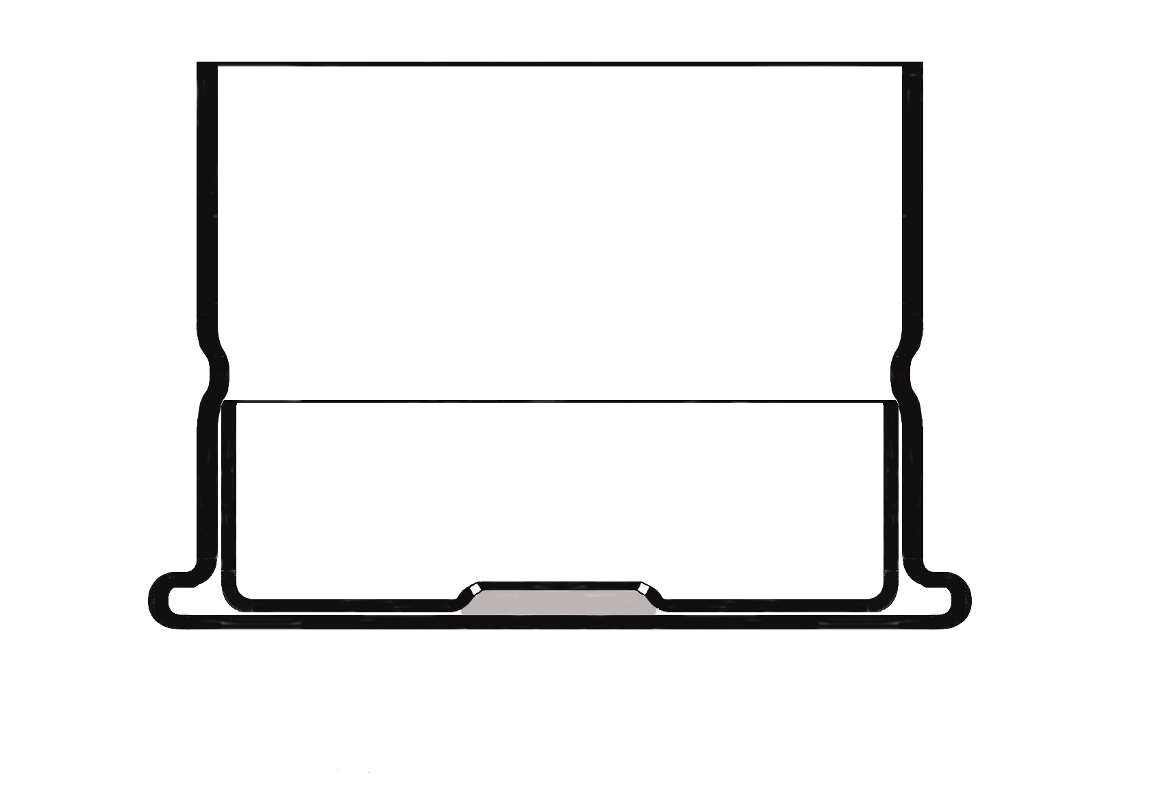 Benét Primer